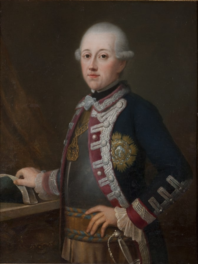 Portrait of Victor Amadeus II, Prince of Carignano (1743-1780)